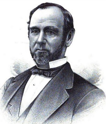 Allen Potter (Michigan Congressman)